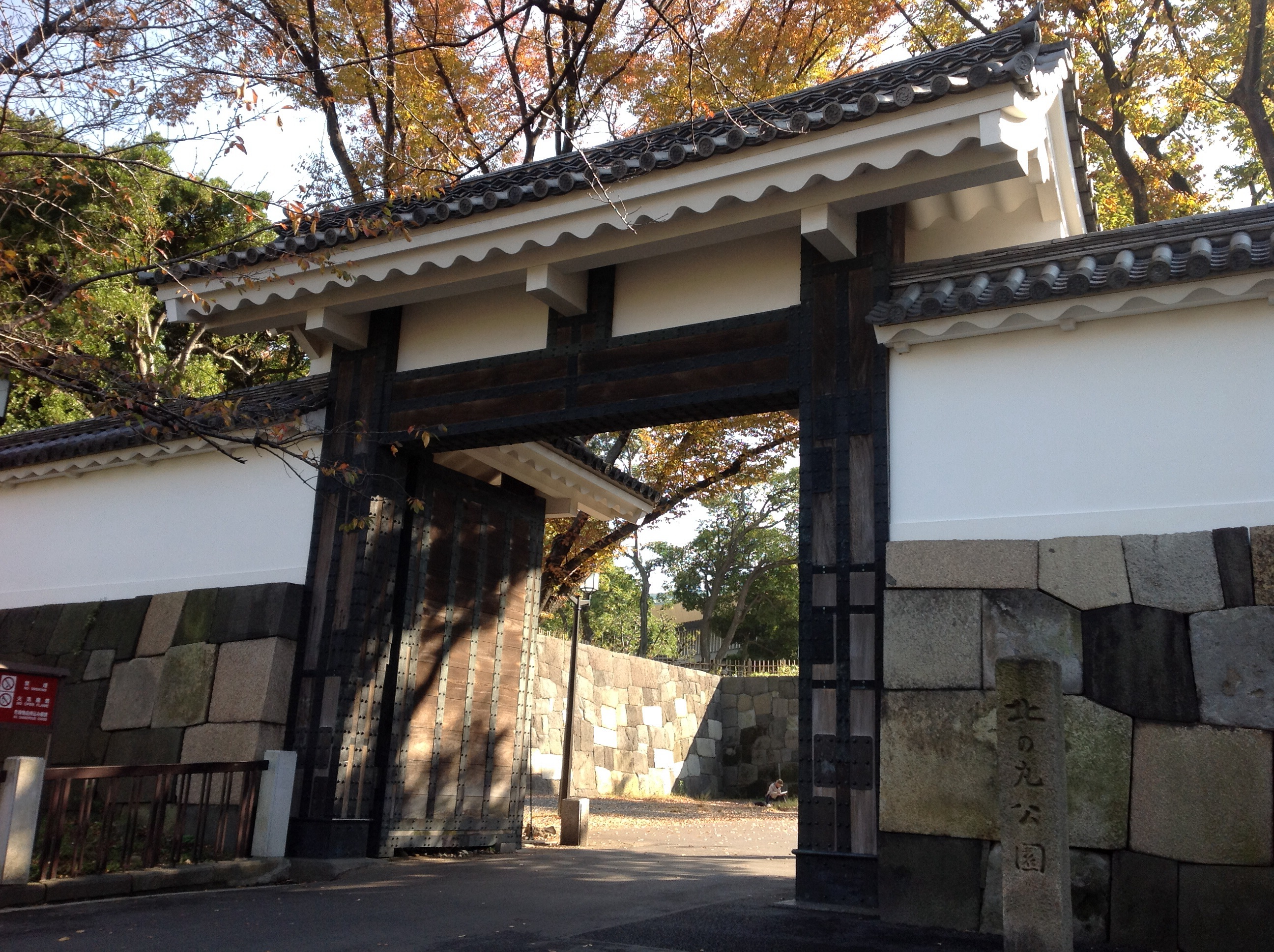 Tayasu-mon, Kitanomaru Park, Tokyo